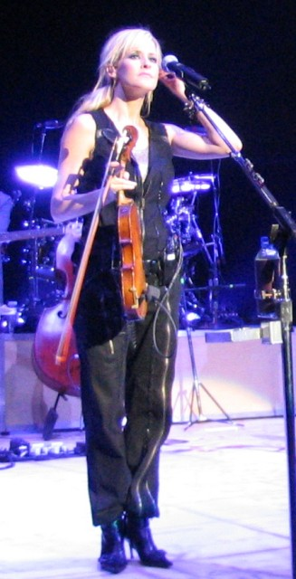 Martie Maguire of the Dixie Chicks performing live at the Dixie Chicks concert in the Royal Albert Hall in London, England in September 2003...